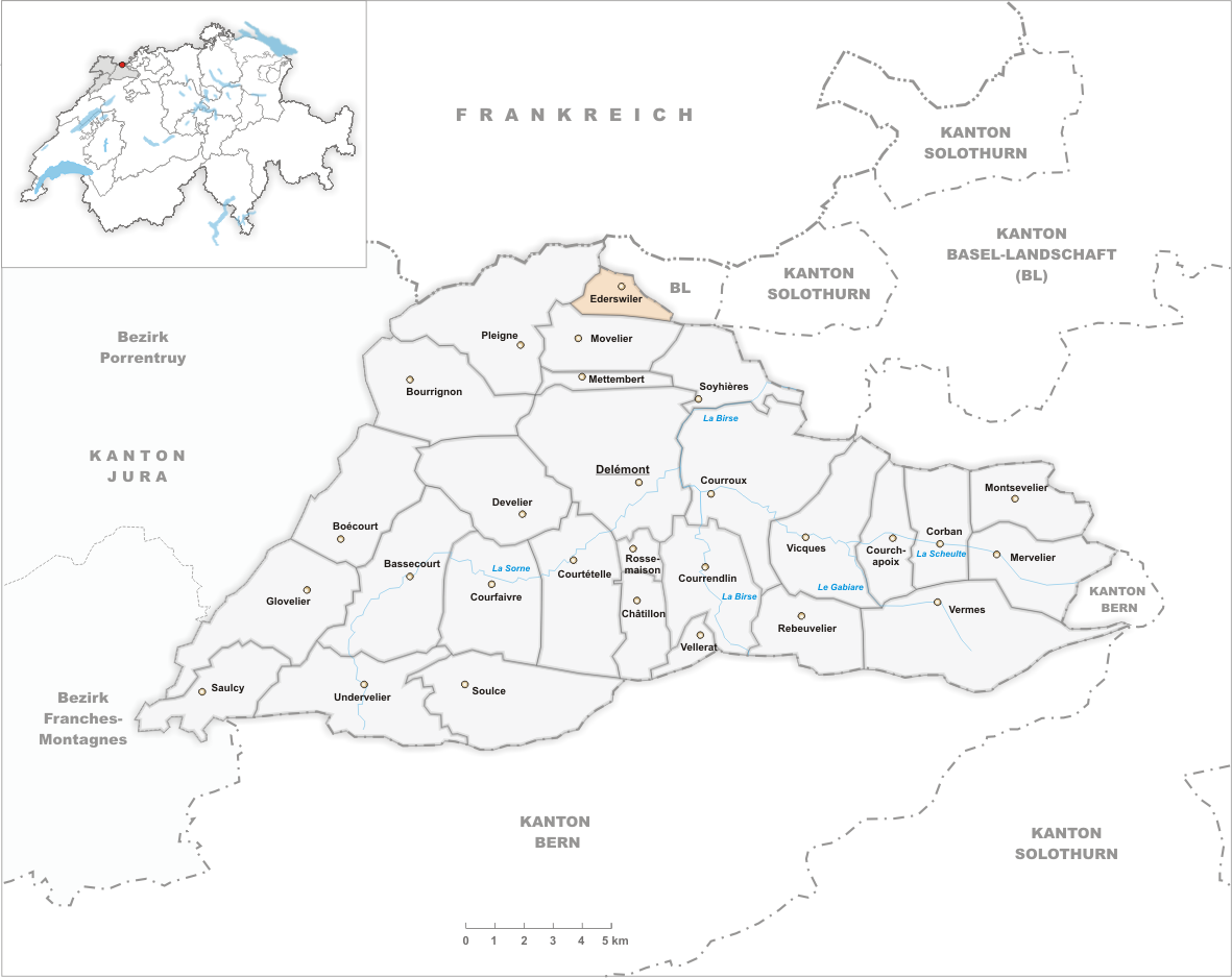 Municipality Ederswiler